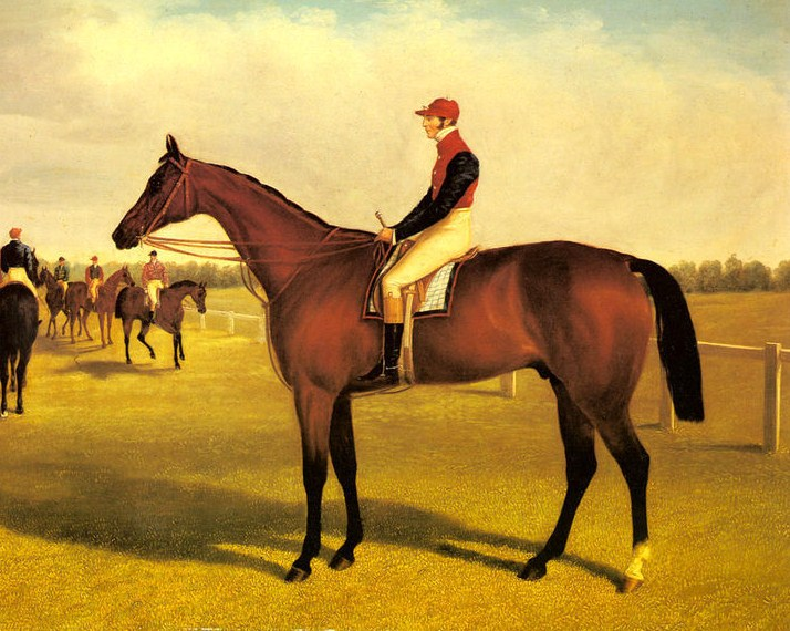 Don John, The Winner of the 1838 St. Leger with William Scott Up, painting by John Frederick Herring Snr (1795-1865). Artist dead for 147 years.